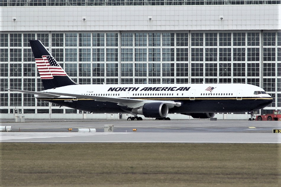 North American Airlines Boeing 767-300 F-GLOV at Munich Airport